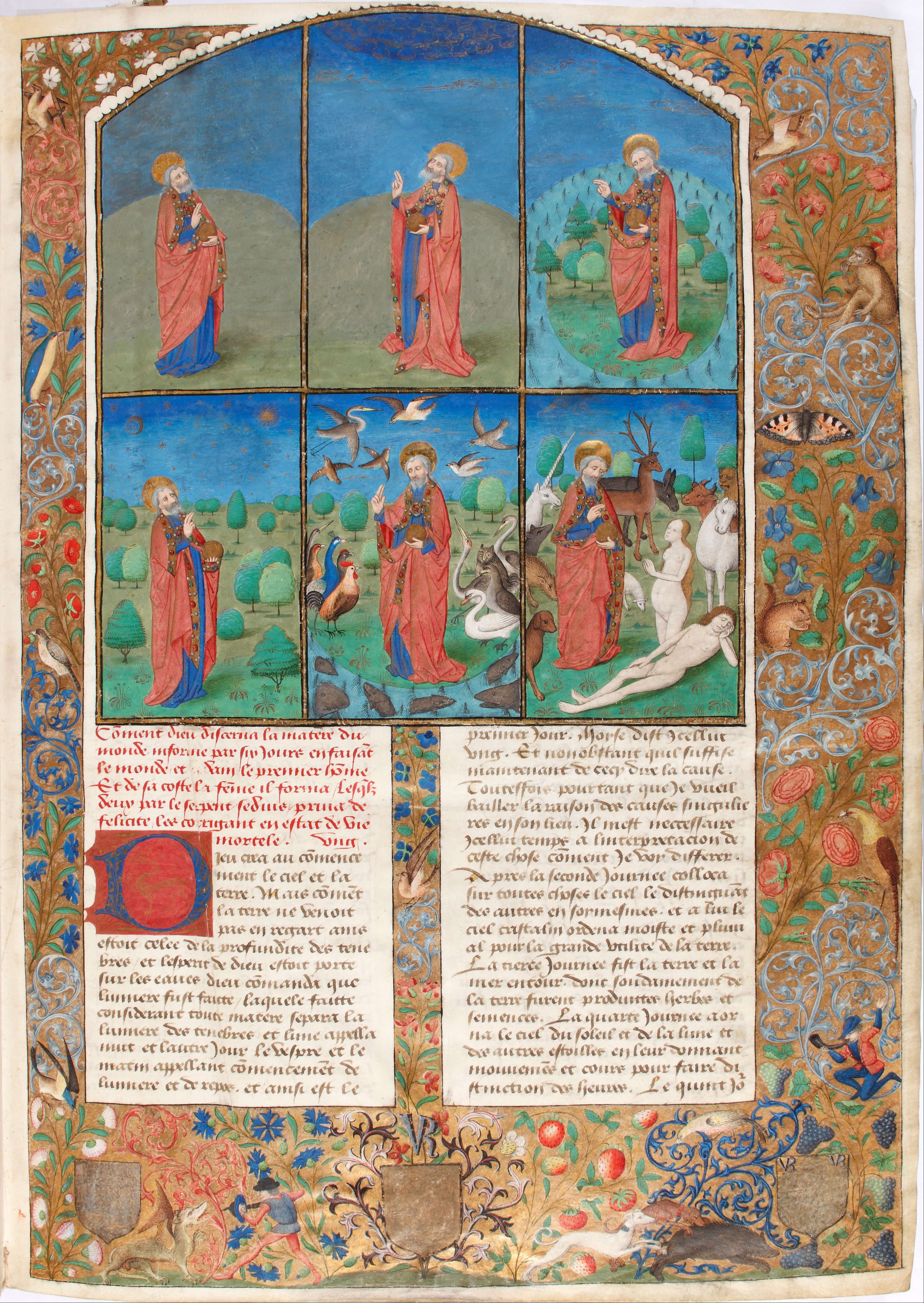 The manuscript contains two works of Flavius Josephus - L'Antiquité Judaïque, in twenty books, and Bataille Judaïque in seven- written in Aramaic, that were propagated in Latin and vernacular languages in the Middle Ages and experienced a great difussion, despite the emergence of the printing. The manuscript must be one of those made for the alderman of Rouen, after 1460. The paintings which are located at the beginning of each book depict battles, looting, destruction and biblical episodes, with particular emphasis on the first one, the scene of Creation.